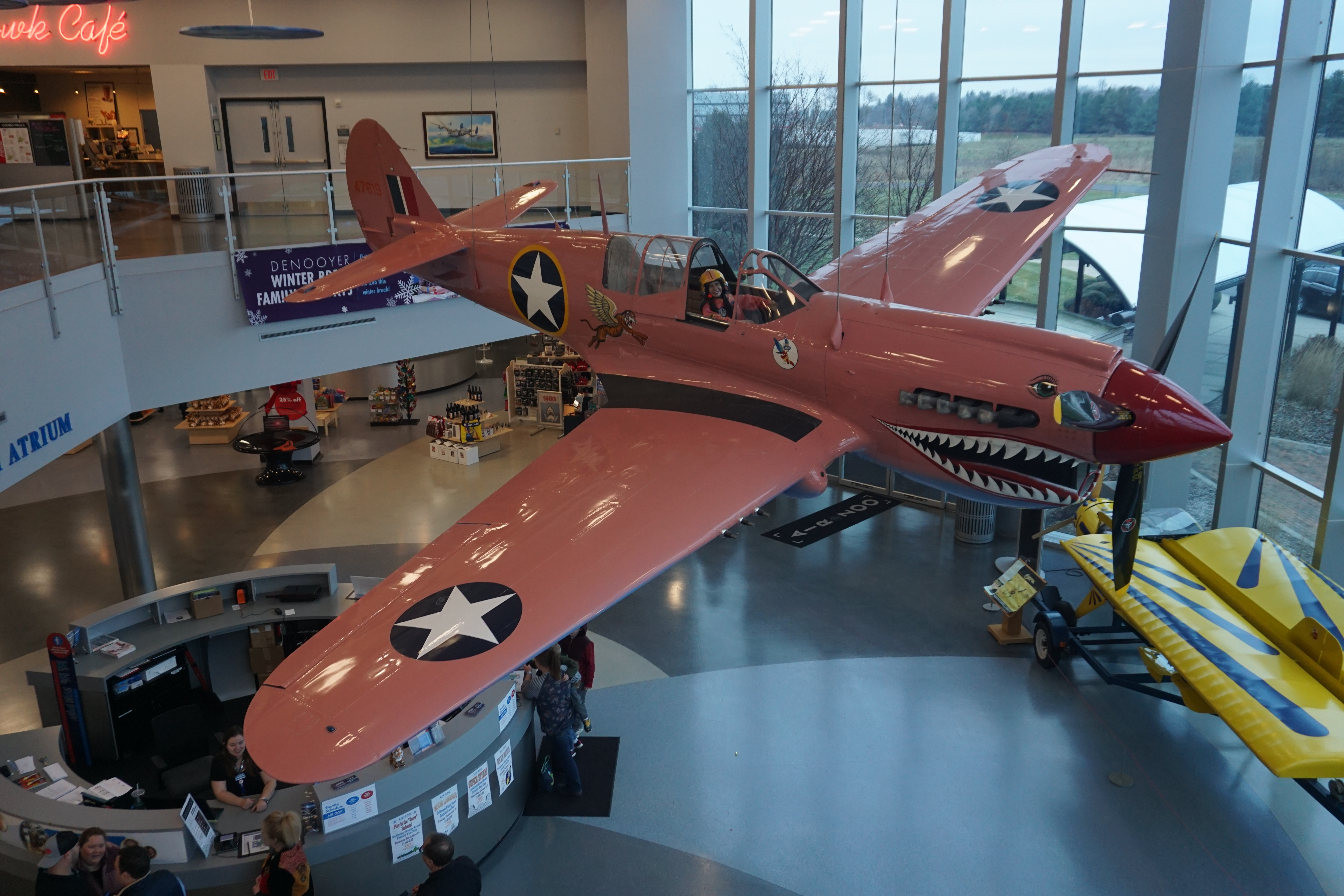 Sue Parish's Curtiss P-40 Warhawk on display at the Air Zoo at Kalamazoo/Battle Creek International Airport in Portage, Michigan (United States).